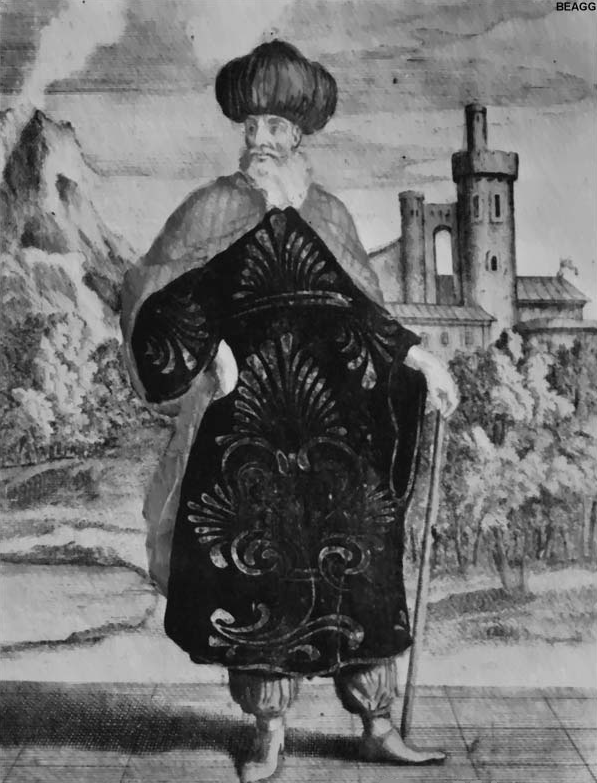 . Henri Bonnart. Figure illustrating a costume [1].